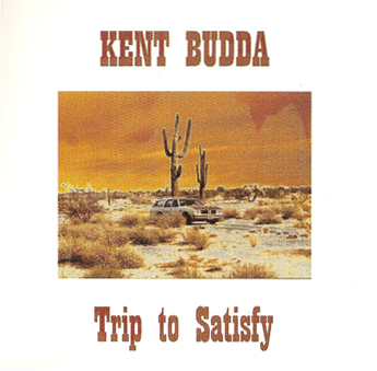 CD cover for Kent Budda CD-single Trip To Satisfy. Picture taken in New Mexico, USA.